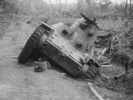 New Guinea. Australian militia forces successfully overcame a Japanese attempt to land at Milne Bay. This picture shows one of two Japanese type 95 Ha-go light tanks that became bogged on the track near the Gama River and were abandoned during the Japanese attack. (See McCarthy, South West Pacific Area - First Year: Kokoda to Wau, p. 175)